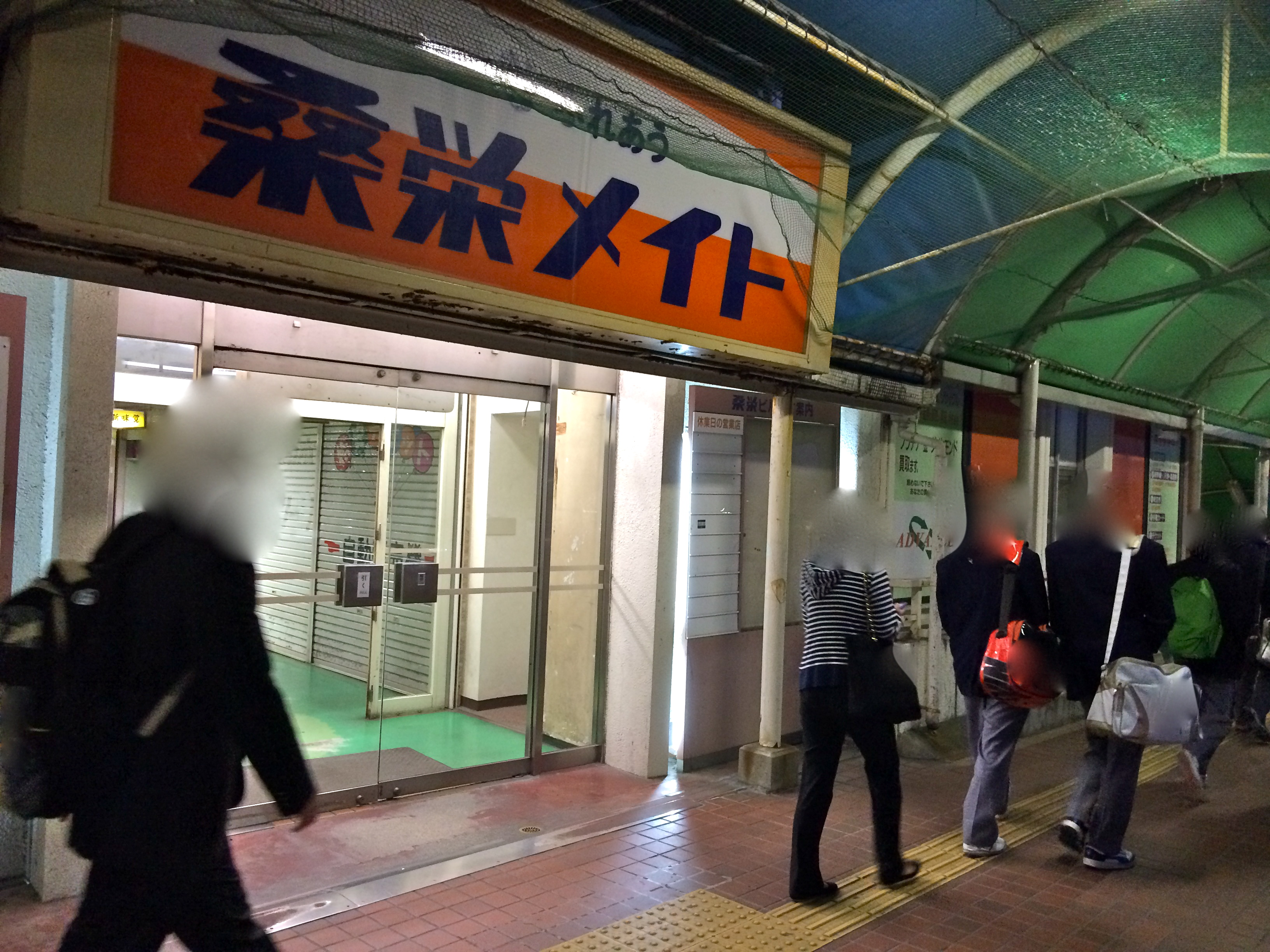 2F Kuwana Station side entrance of Souei Meito. (From the pedestrian deck of Kuwana Station)